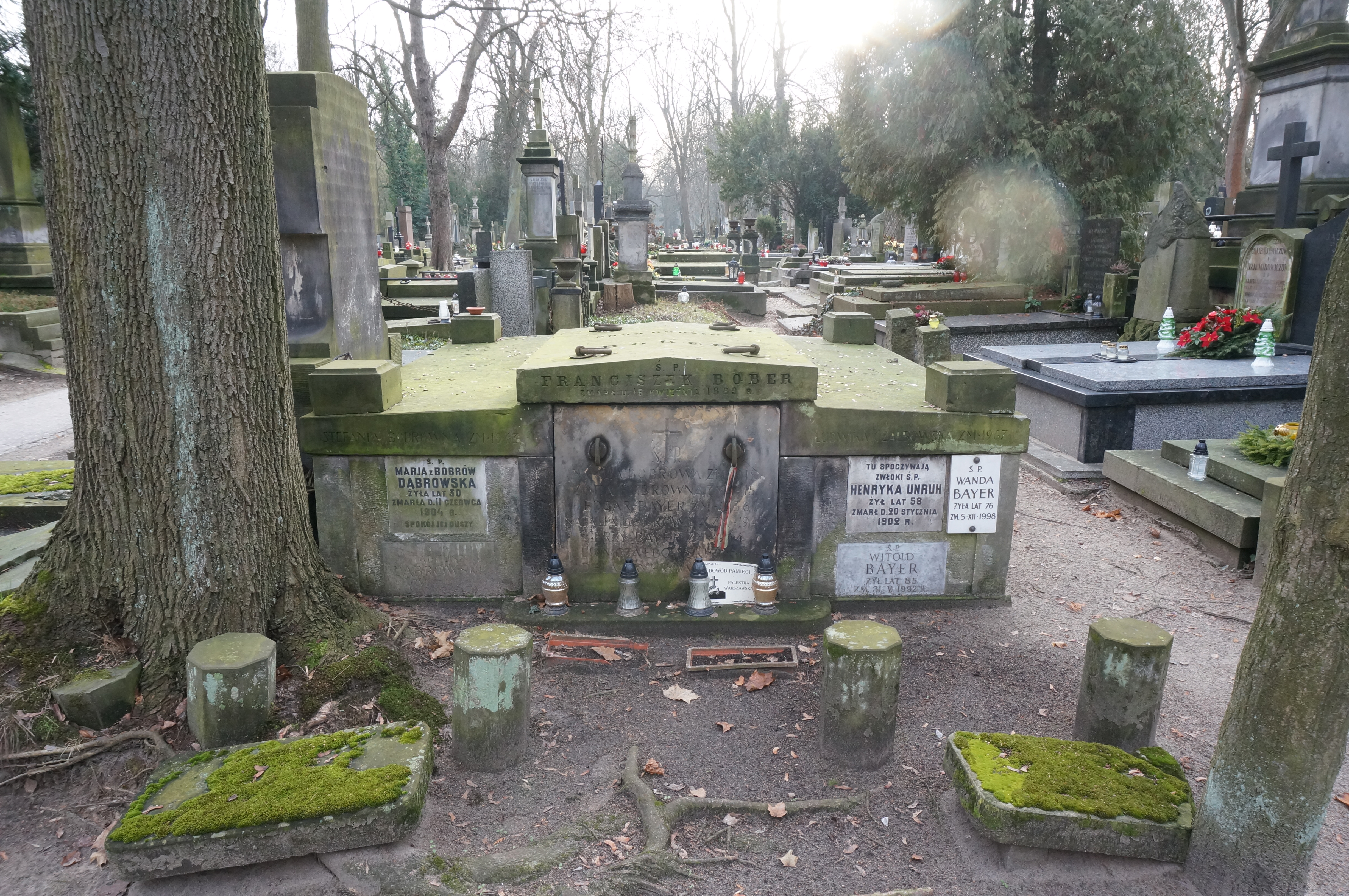 Grave of Witold Bayer at the Powązki Cemetery (section 199, row 2, grave 1, 2, 3)